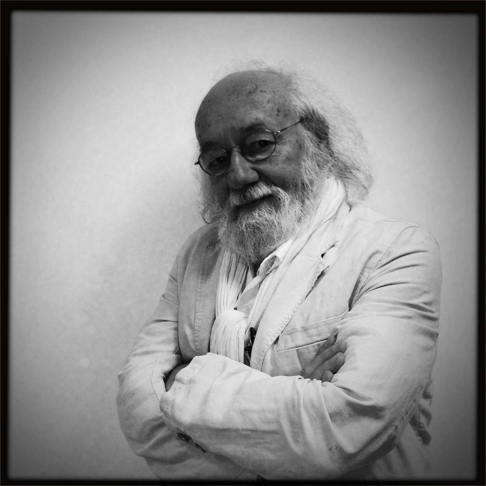 A hipstamatic portrait of Luxembourg author Lambert Schlechter by François Besch